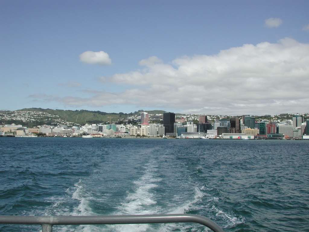 Downtown Wellington City from Wellington Harbour Ferry. Wellington, New Zealand.